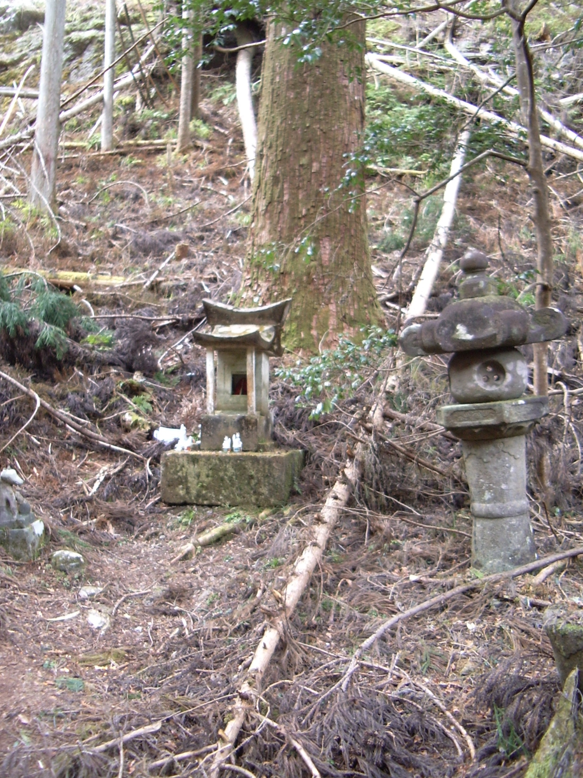 Small shrine 02